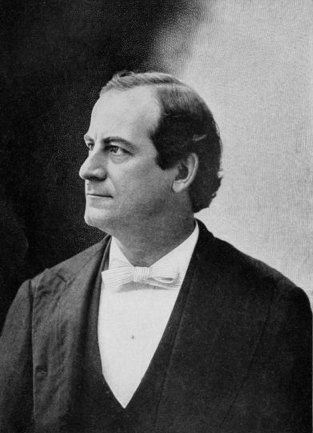 Image of William Jennings Bryan